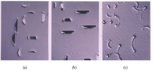 A comparison of stacking fault delineation and surface condition